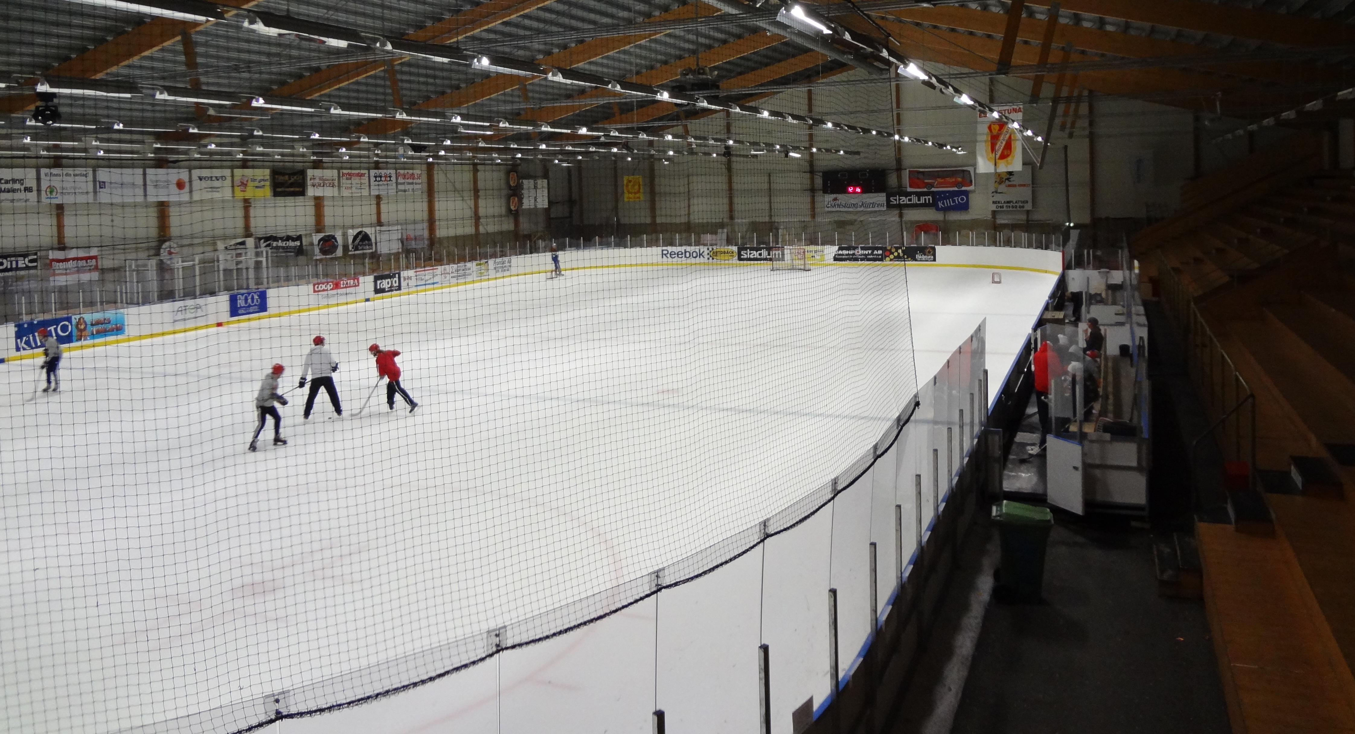 Ice hockey hall in Eskilstuna, Sweden.